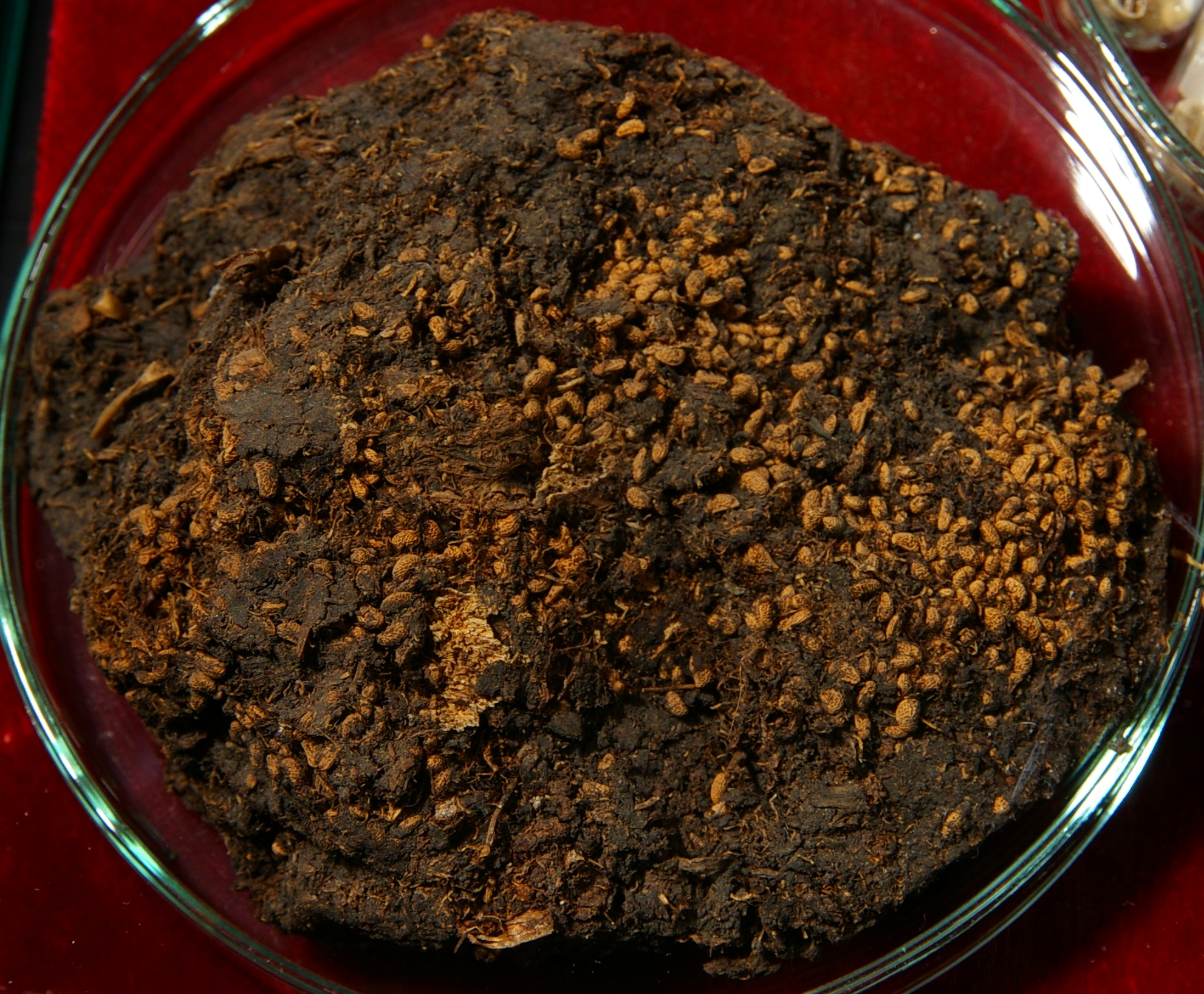 Hallonflickan "The Raspberry Girl". Stomach content - fossilized raspberries.